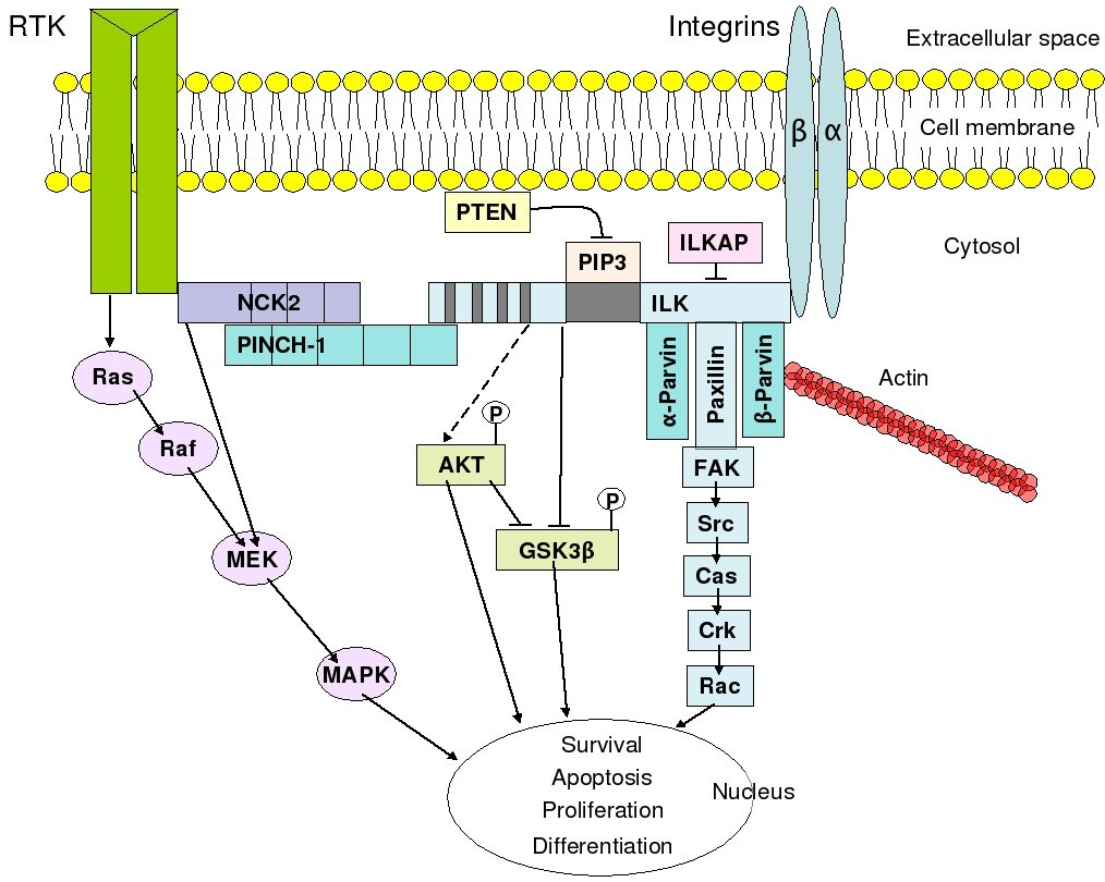 This image was adapted from a figure produce in a paper titled "Signalling via integrins: Implications for cell survival and anticancer strategies, Hehlgans et al 2007 [1]